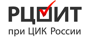 Logo of Russian Center of Training in Electoral Technologies affiliated to CEC of Russia